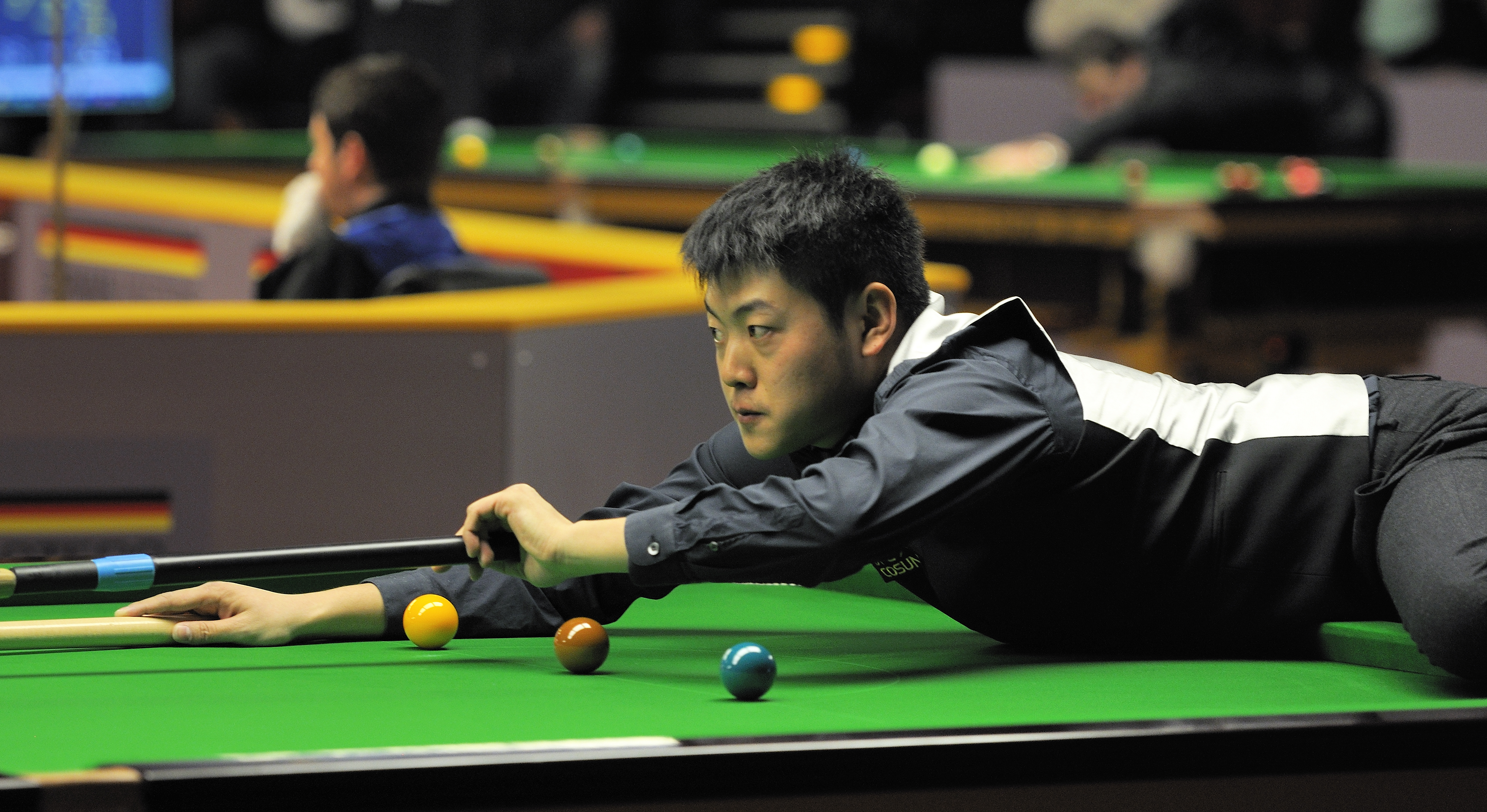 Picture taken in Berlin during the Snooker German Masters in 2014. Liang Wenbo.